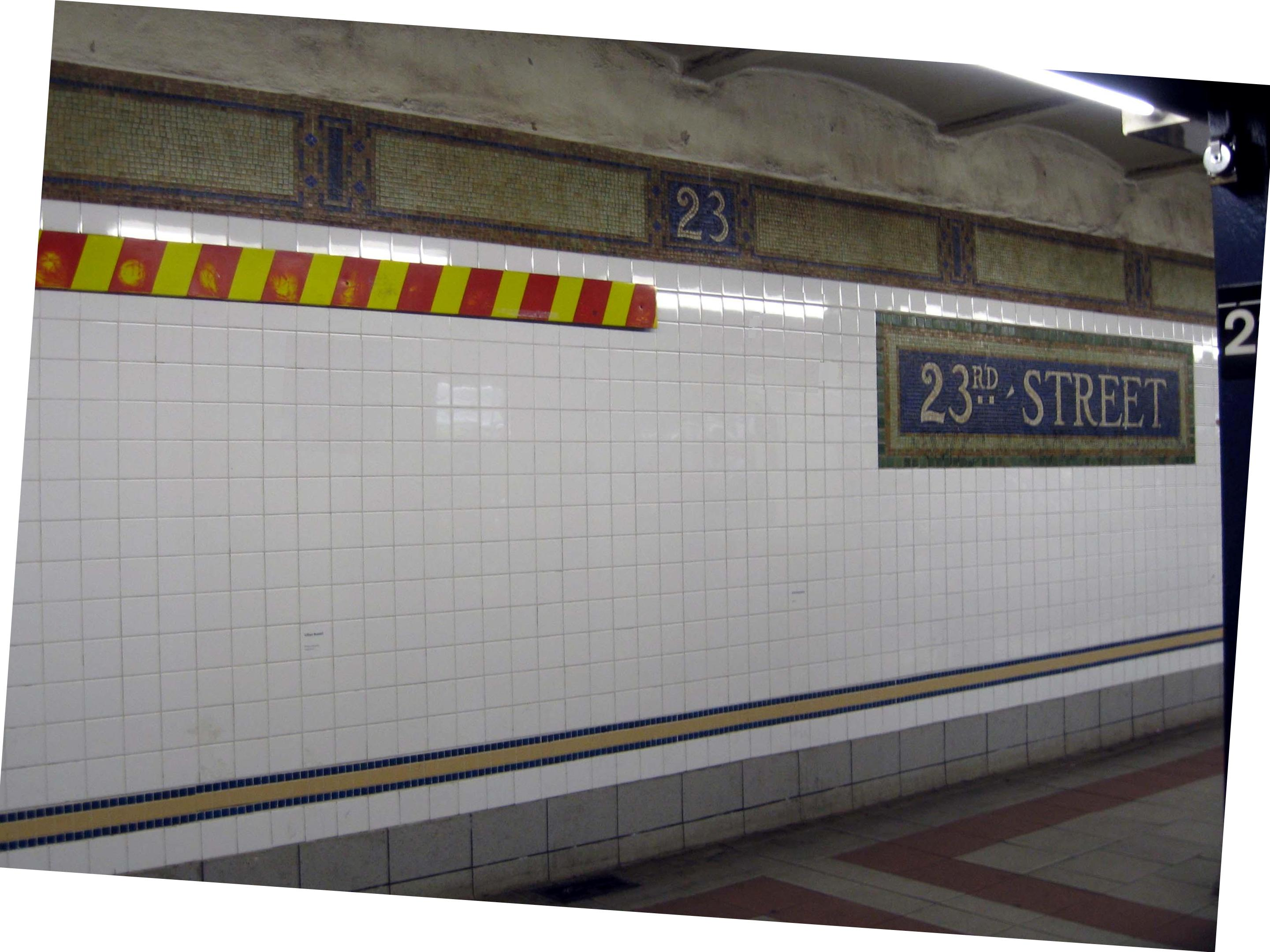 Looking southeast across northbound platform of en:23rd Street (BMT Broadway Line), out the car door